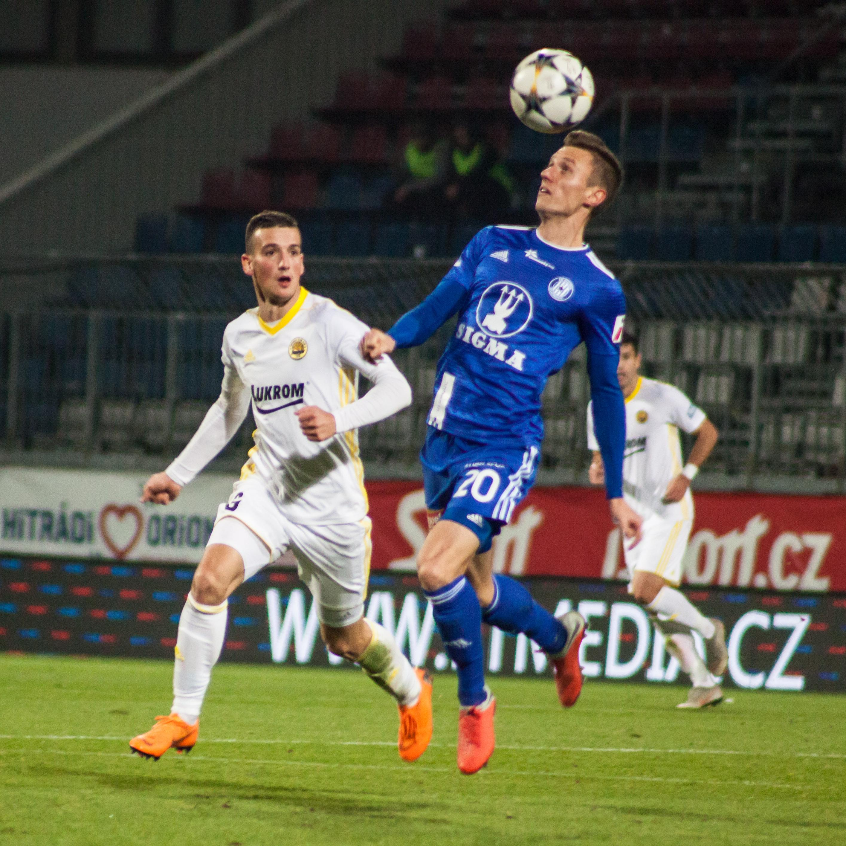 Lukáš Holík & Šimon Falta At Czech cup (MOL Cup) match SK Sigma Olomouc-FC Fastav Zlín played on 15 November 2018